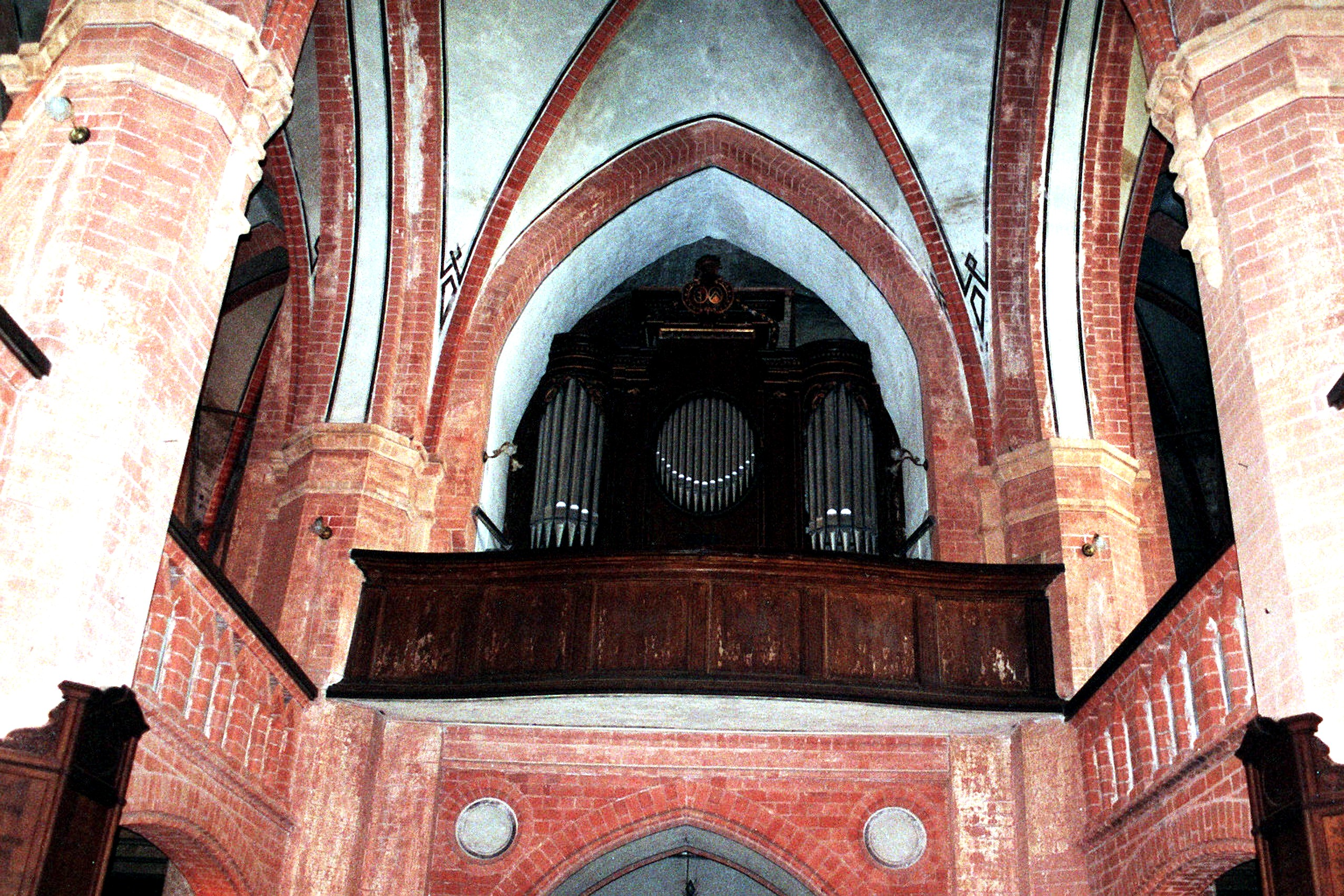 Penzlin, St. Mary´s church, the organ